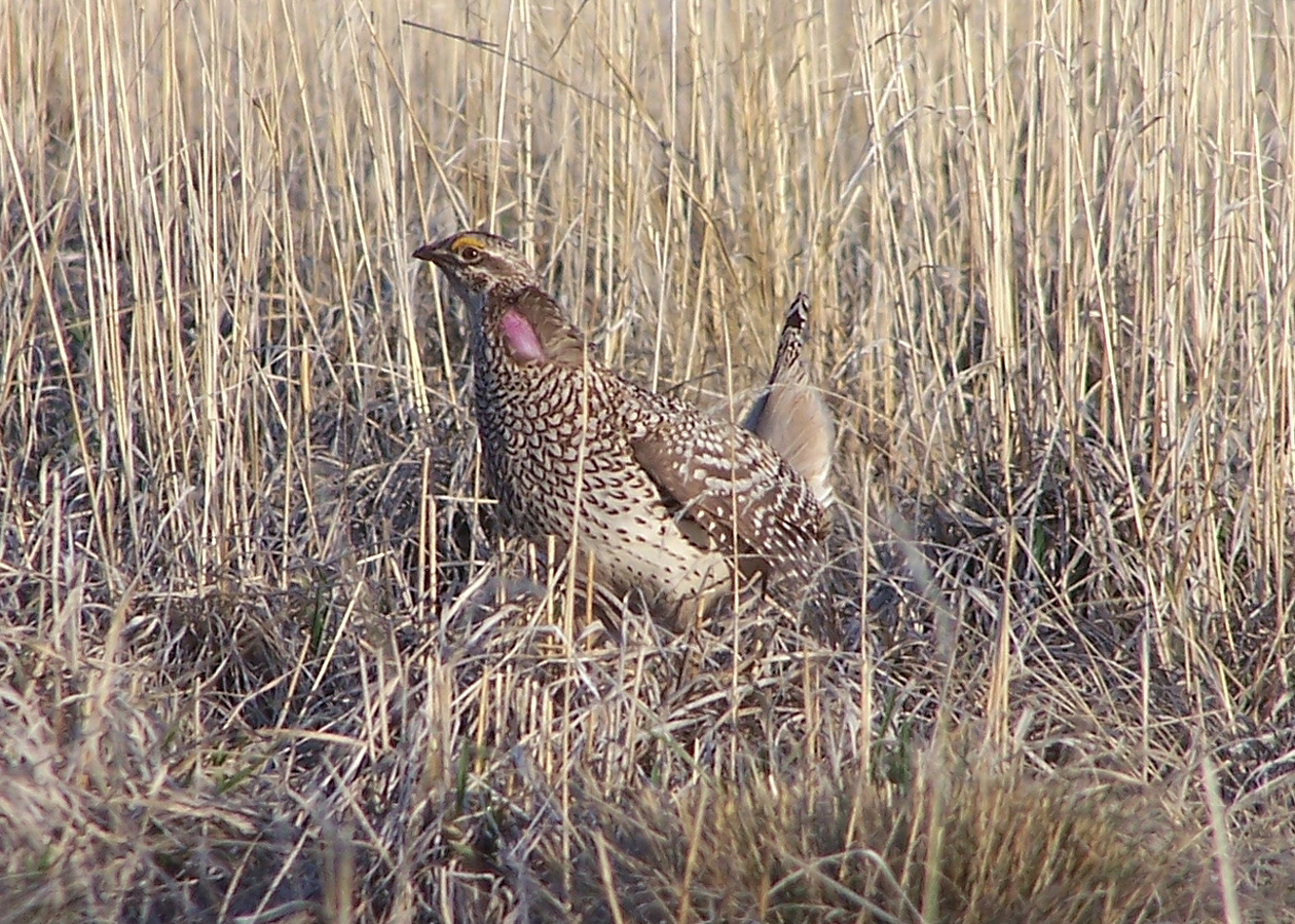 Columbian Sharptail Grouse North of Enterprise, Oregon 2005.